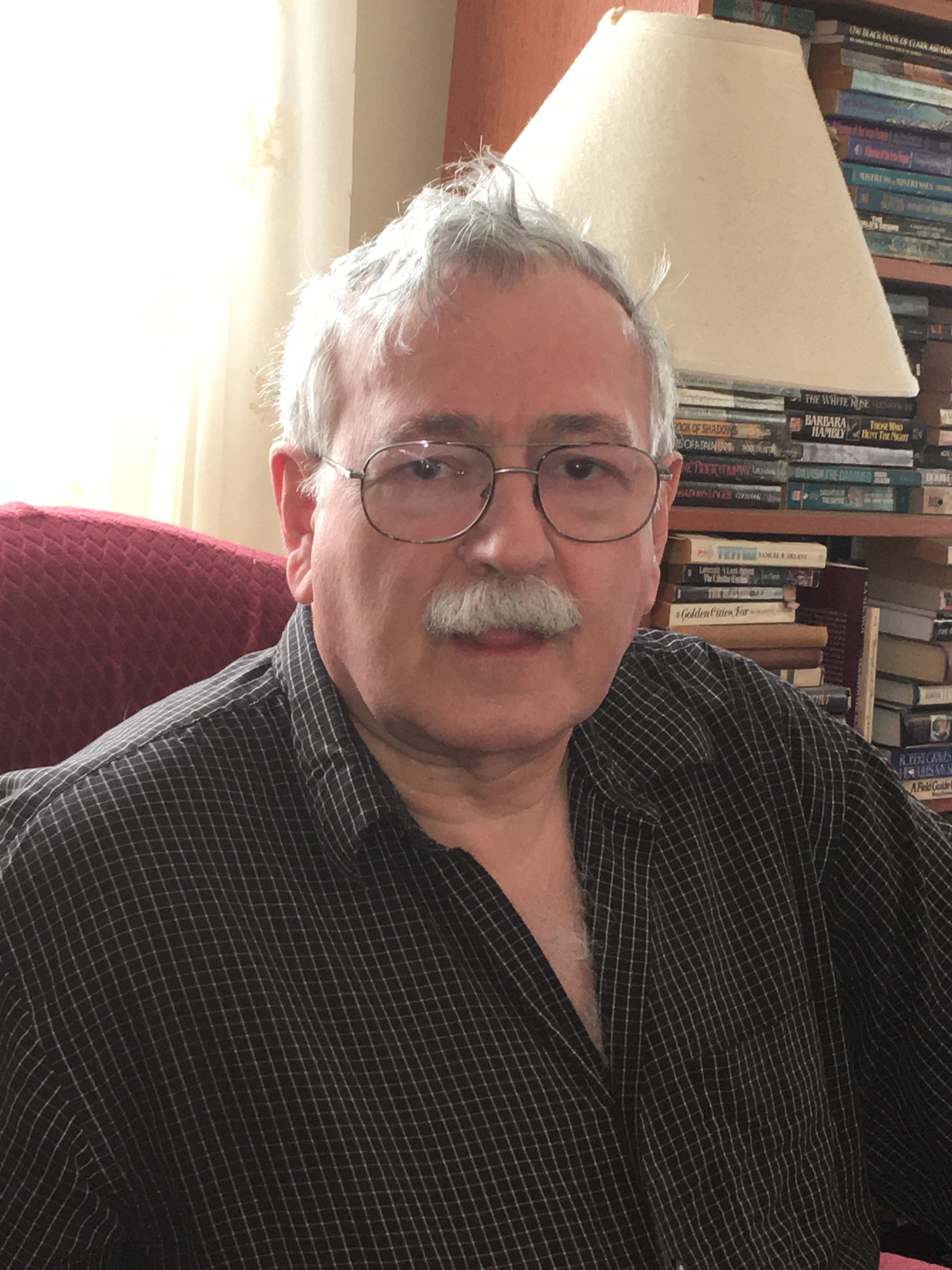 white male human (Dick Smith) facing the camera, with books and a lampshade in background